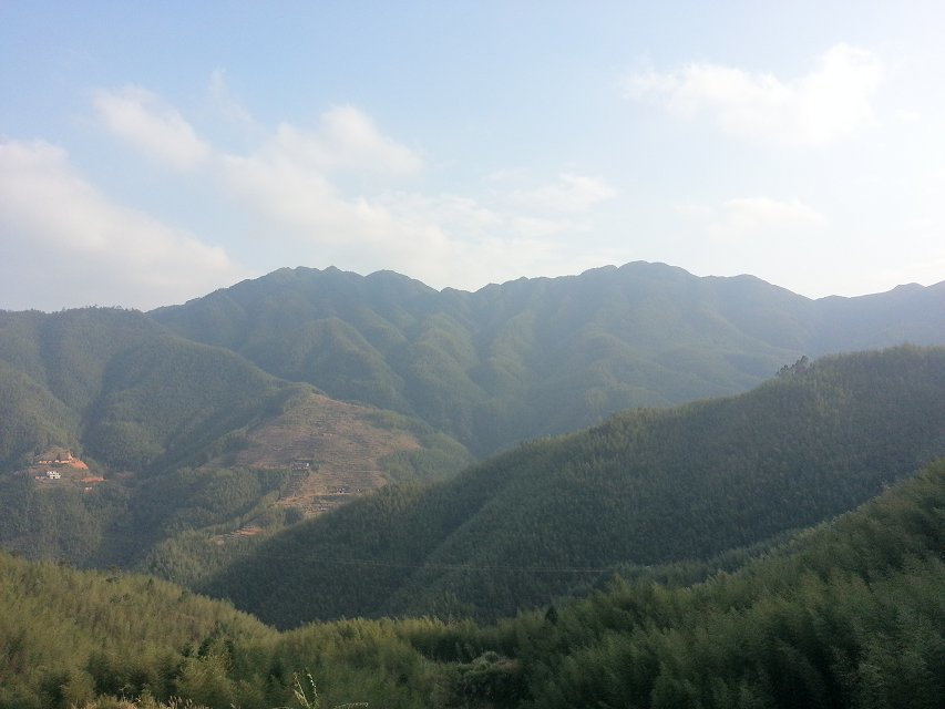 Mountain in Zhusha